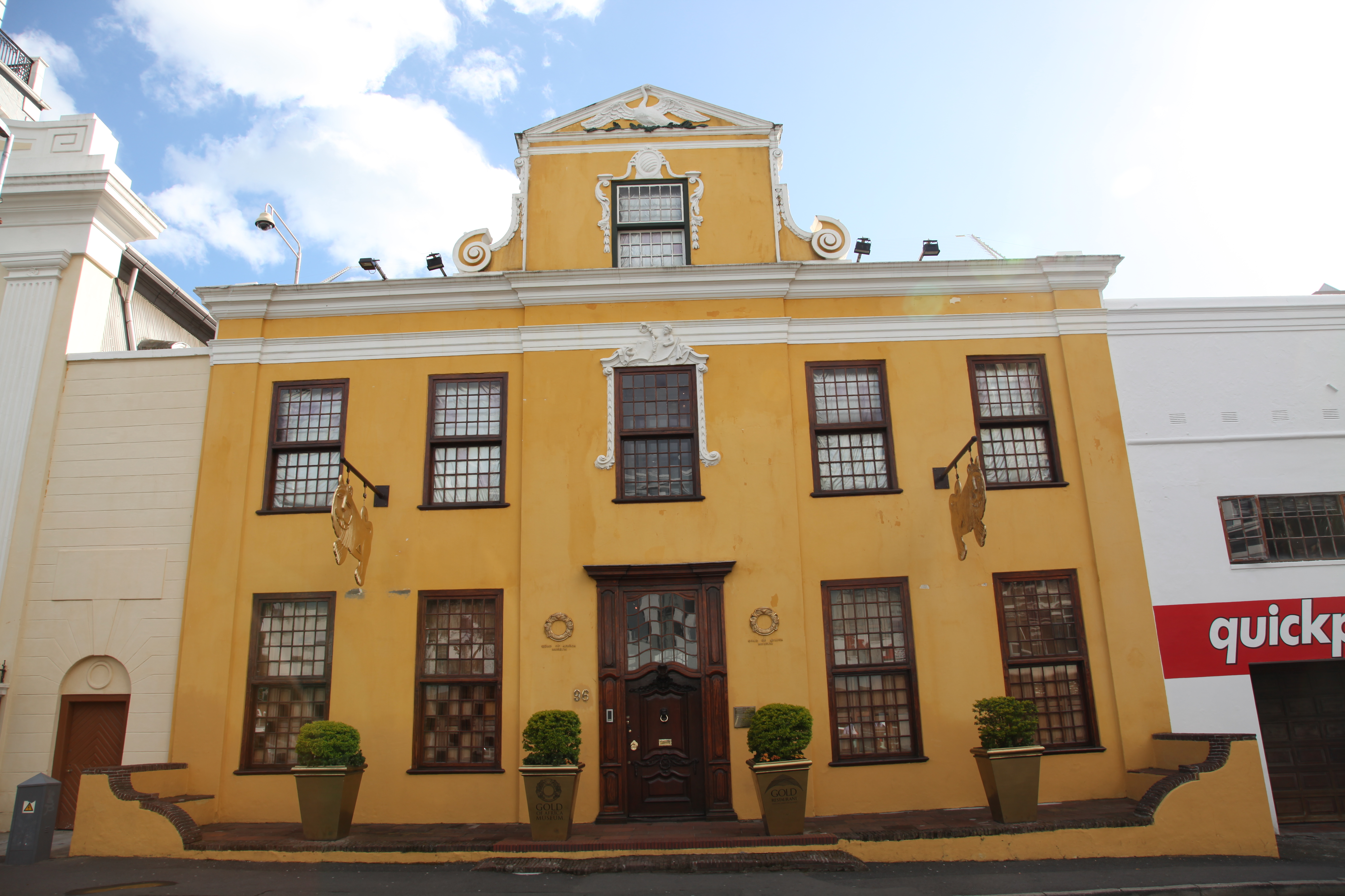 The Martin Melck House, at 96 Strand Street, Cape Town, was built by the Lutheran Church as a house for their pastor. It was finished in 1782, and first occupied by Rev. Andreas Kolver and his family.